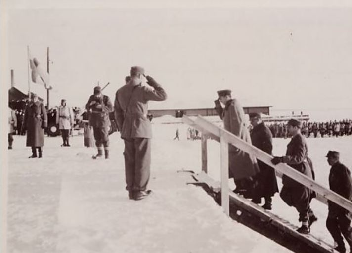 Winter war was over and Swedish vounteer were leaving Finland back to Sweden. Marchalk mannerheim visited as well in Salla on the front and in Kemi which was a training center for Swedish Volunteer.